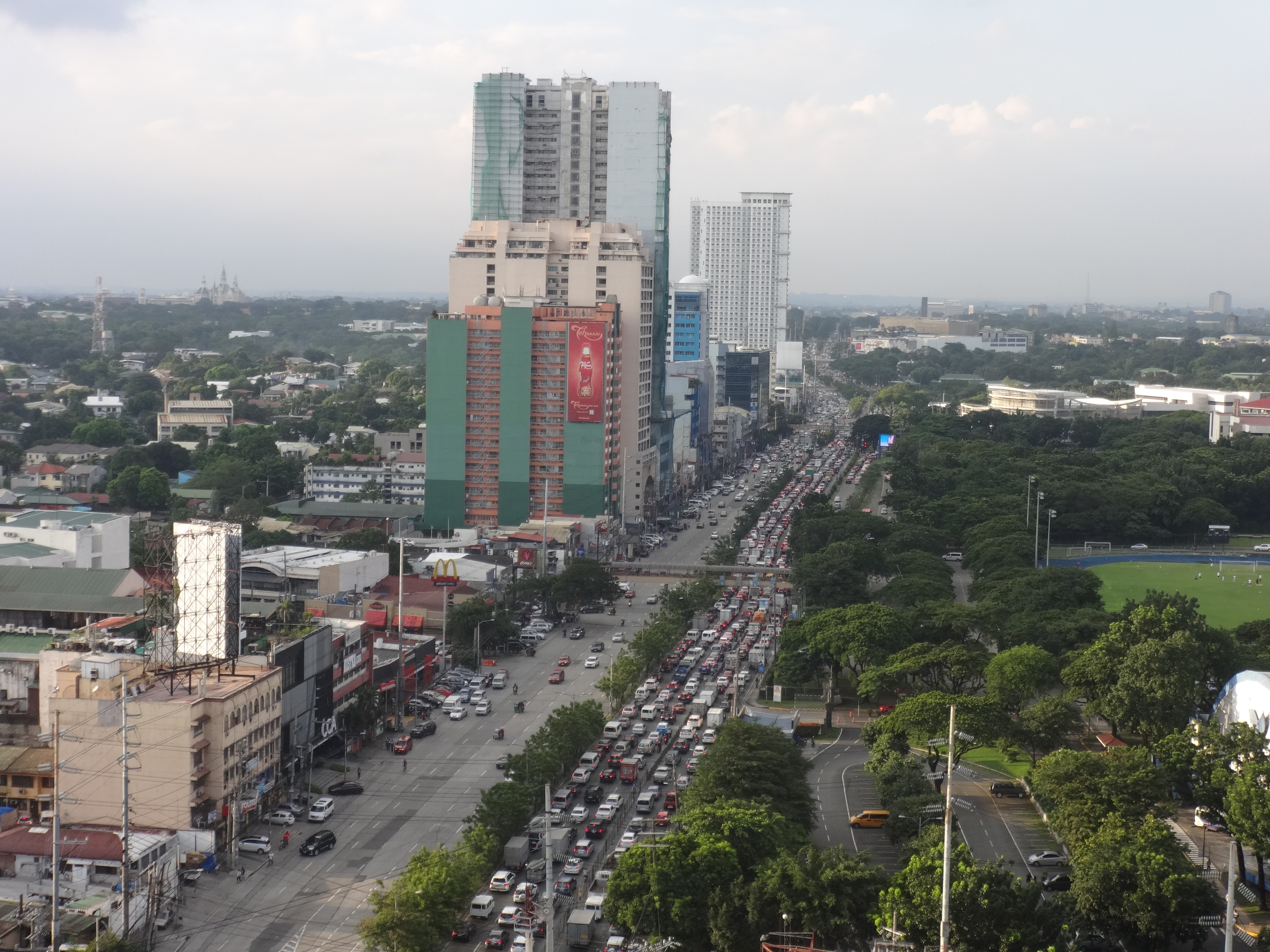 Ateneo-Miriam section of C.P. Garcia Avenue (C-5 Road/Katipunan Road) in Loyola Heights, Quezon City.